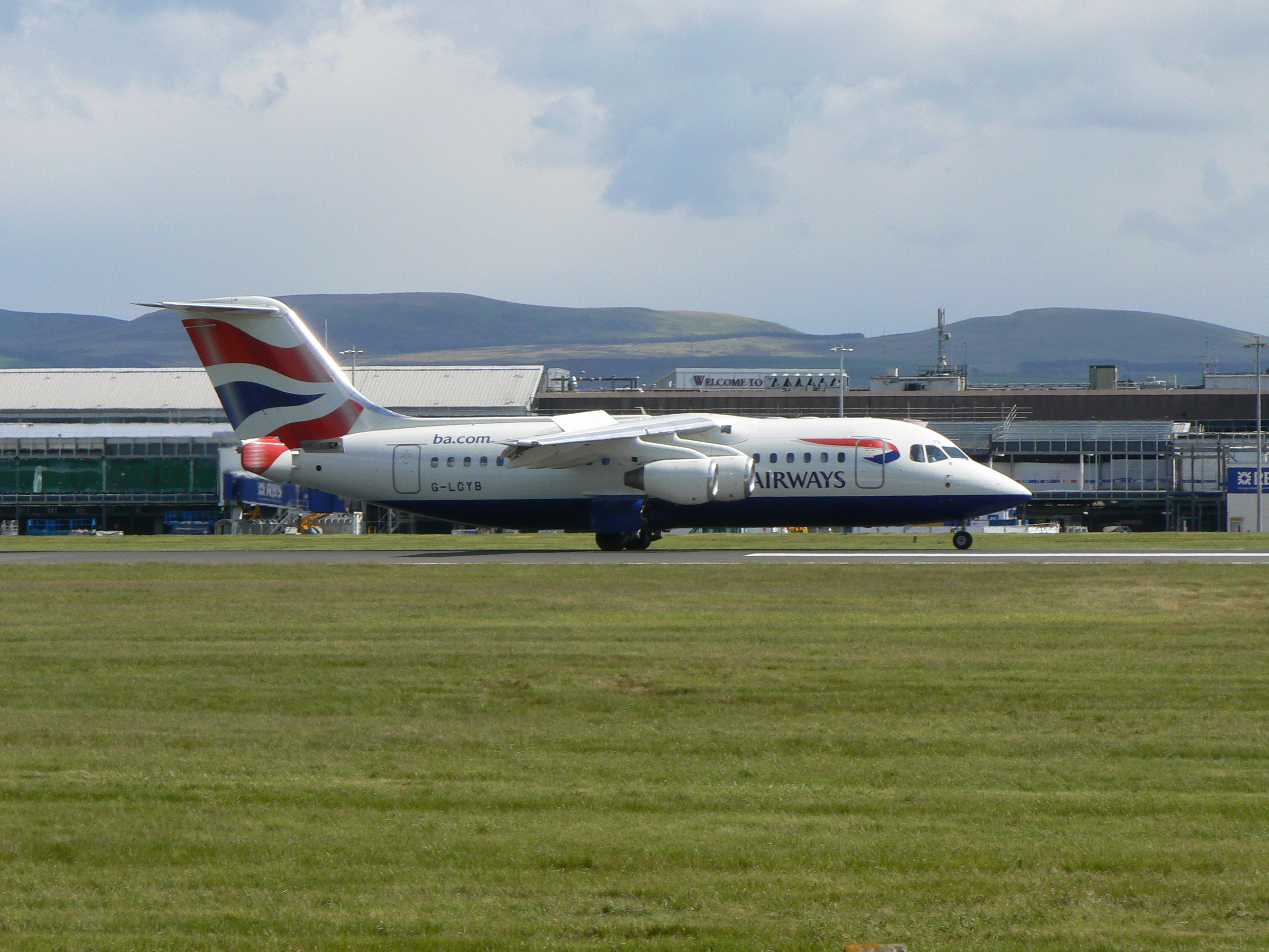 BA Cityflyer Avro RJ85 landing at Edinburgh Airport. registration: G - LCYB